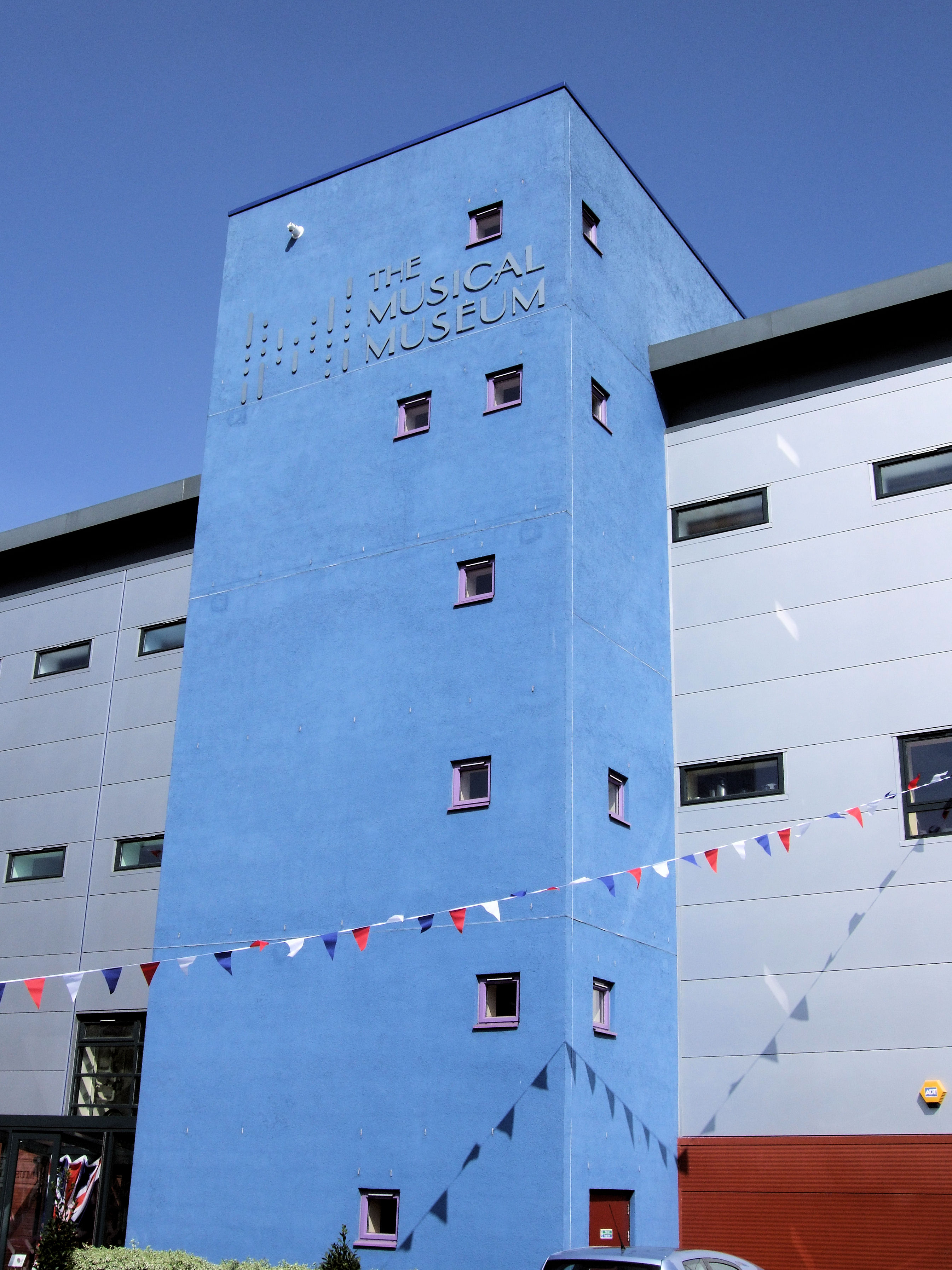 The Musical Museum contains one of the world’s foremost collections of automatic instruments. From the tiny clockwork Musical Box to the self playing ‘Mighty Wurlitzer’, the collection embraces an impressive and comprehensive array of sophisticated reproducing pianos, orchestrions, orchestrelles, residence organs and violin players.